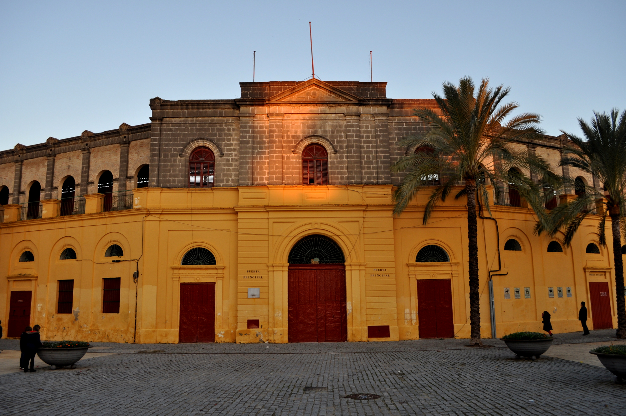 Bullring, Main Gate, Jerez de la Frontera.